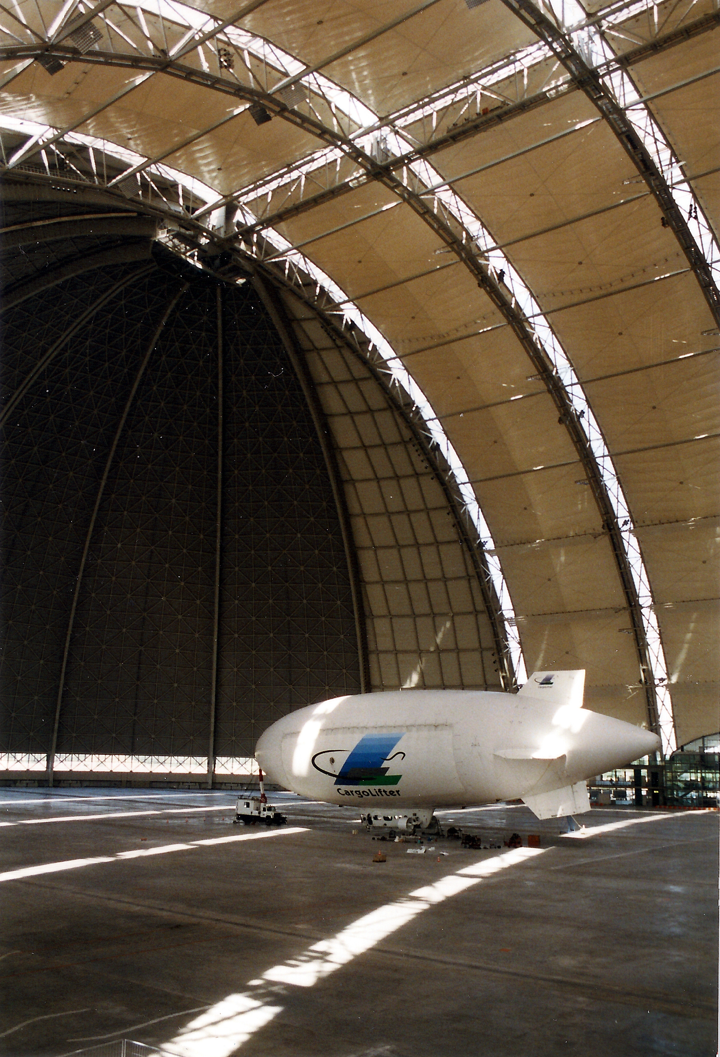 Skyship 600 airship (bought for pilot training purposes) inside the CargoLifter hangar at Briesen-Brand (Halbe in Brandenburg, Germany).